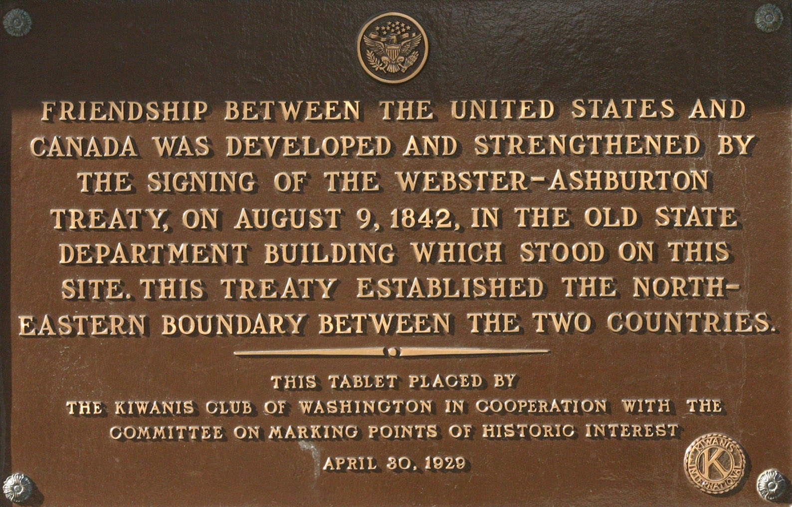 A plaque commemorating the Webster-Ashburton Treaty at the site of the old State Department building in Washington, D.C. where the signing occurred.Webster-Ashburn Treaty